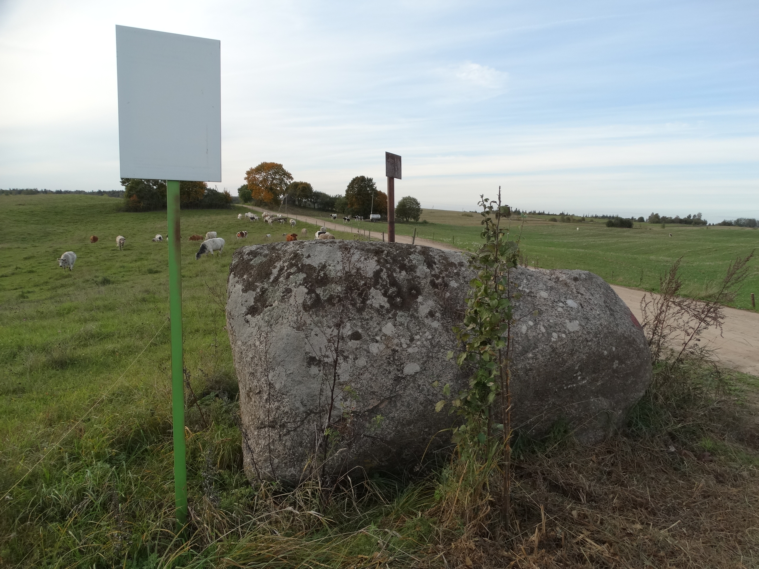 Stone N1 in Medinai, Kaišiadorys District, Lithuania